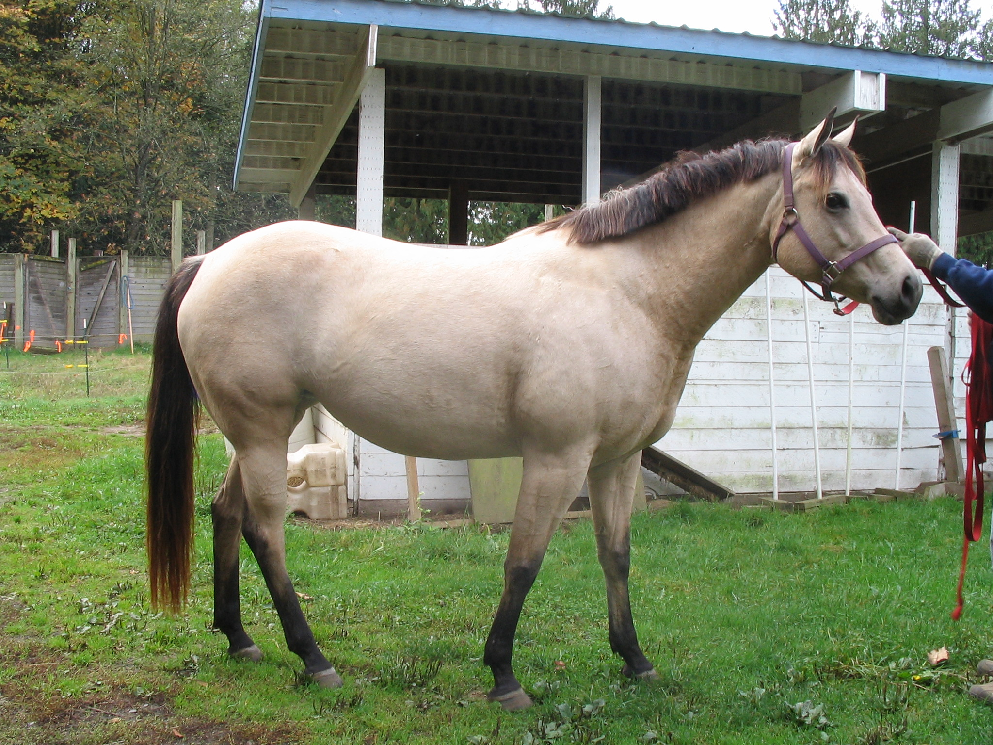 I release all rights to this image and grant it into the public domain. Attribution is not required.